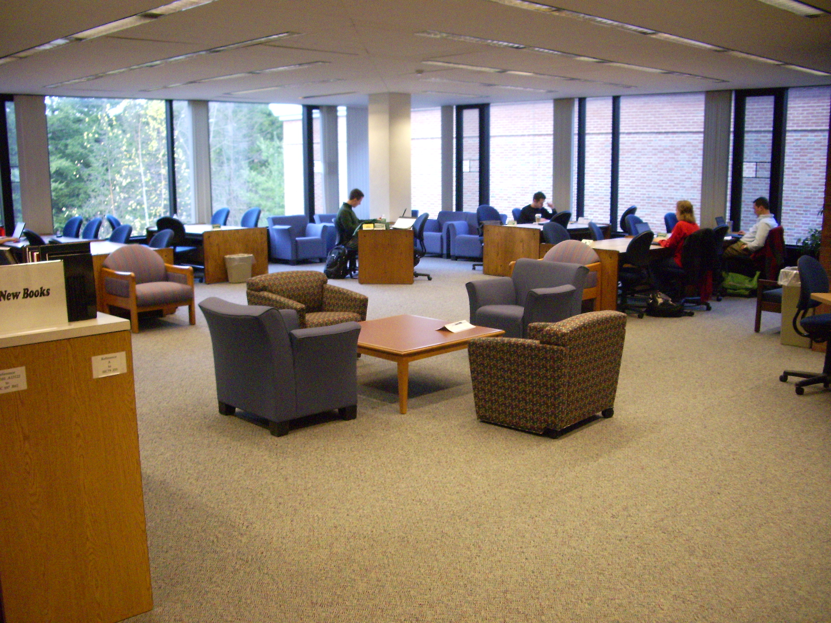 Photograph of the Feldberg Business & Engineering Library at the Tuck School of Business/Thayer School of Engineering at Dartmouth College in Hanover, New Hampshire.